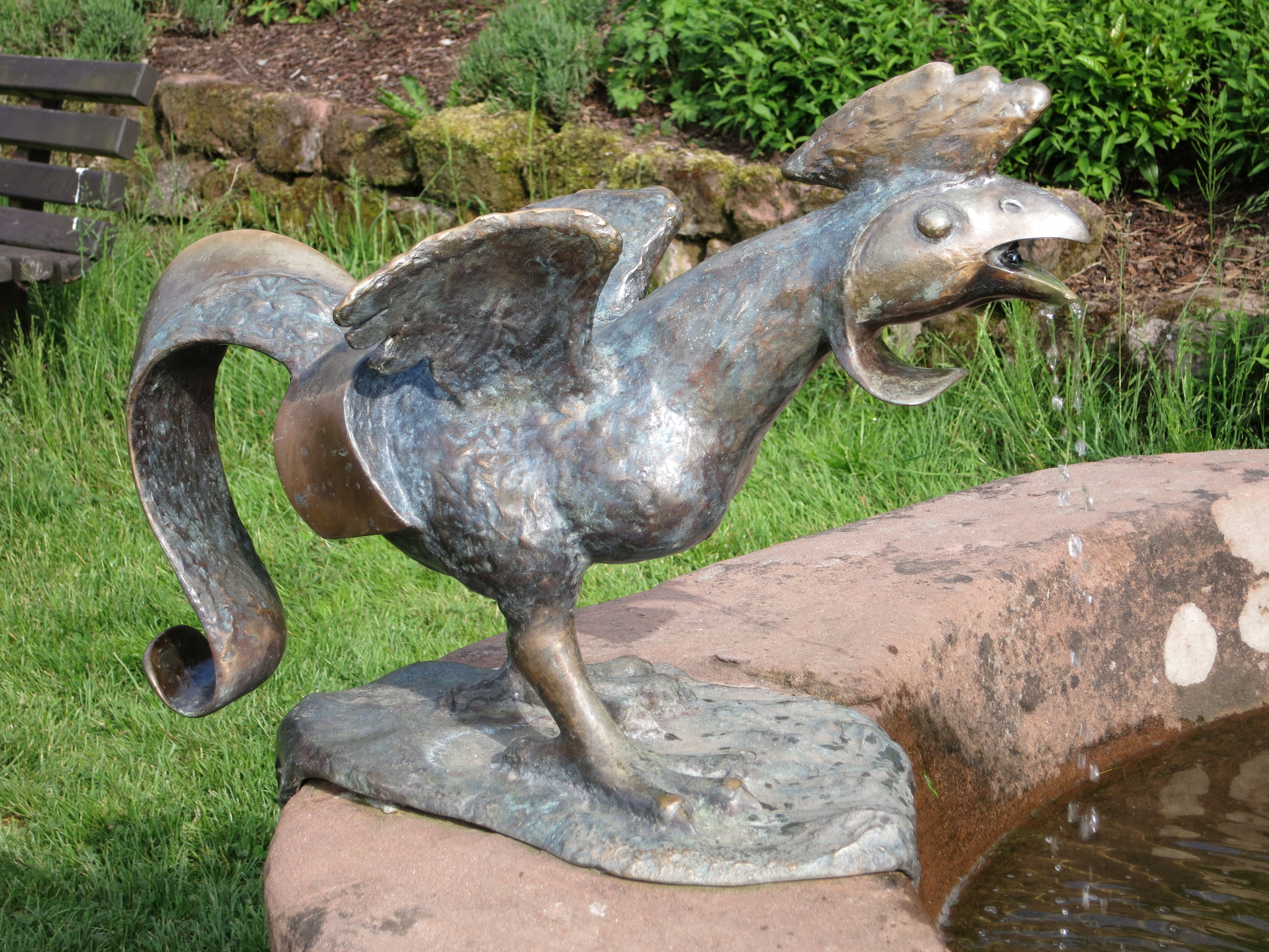 Mythical animal "elwetritsch", sculpture in parque in Dahn